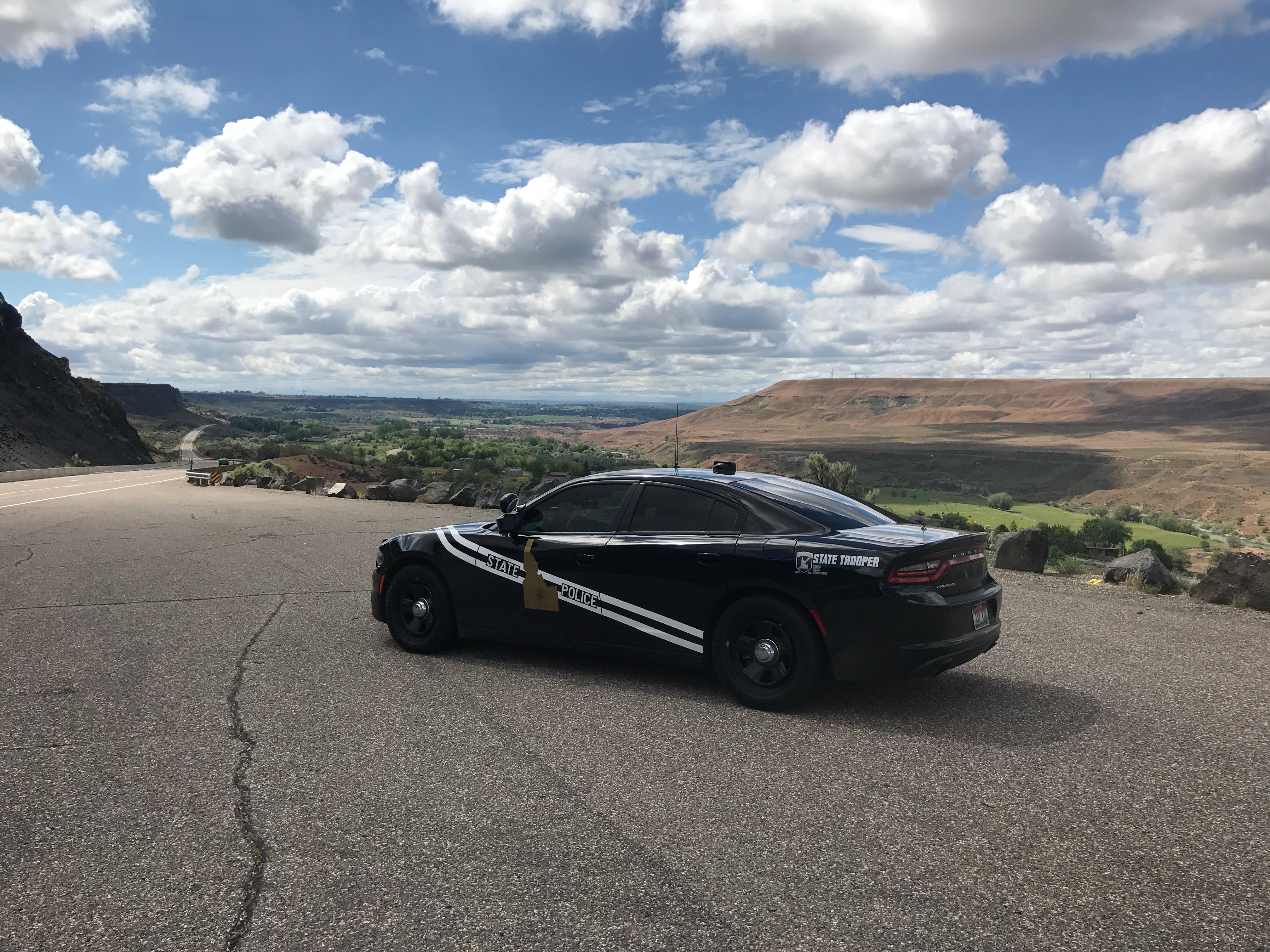 Idaho State Police car near Hagerman, Idaho 2017